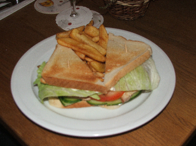 Clubsandwich in Brilon